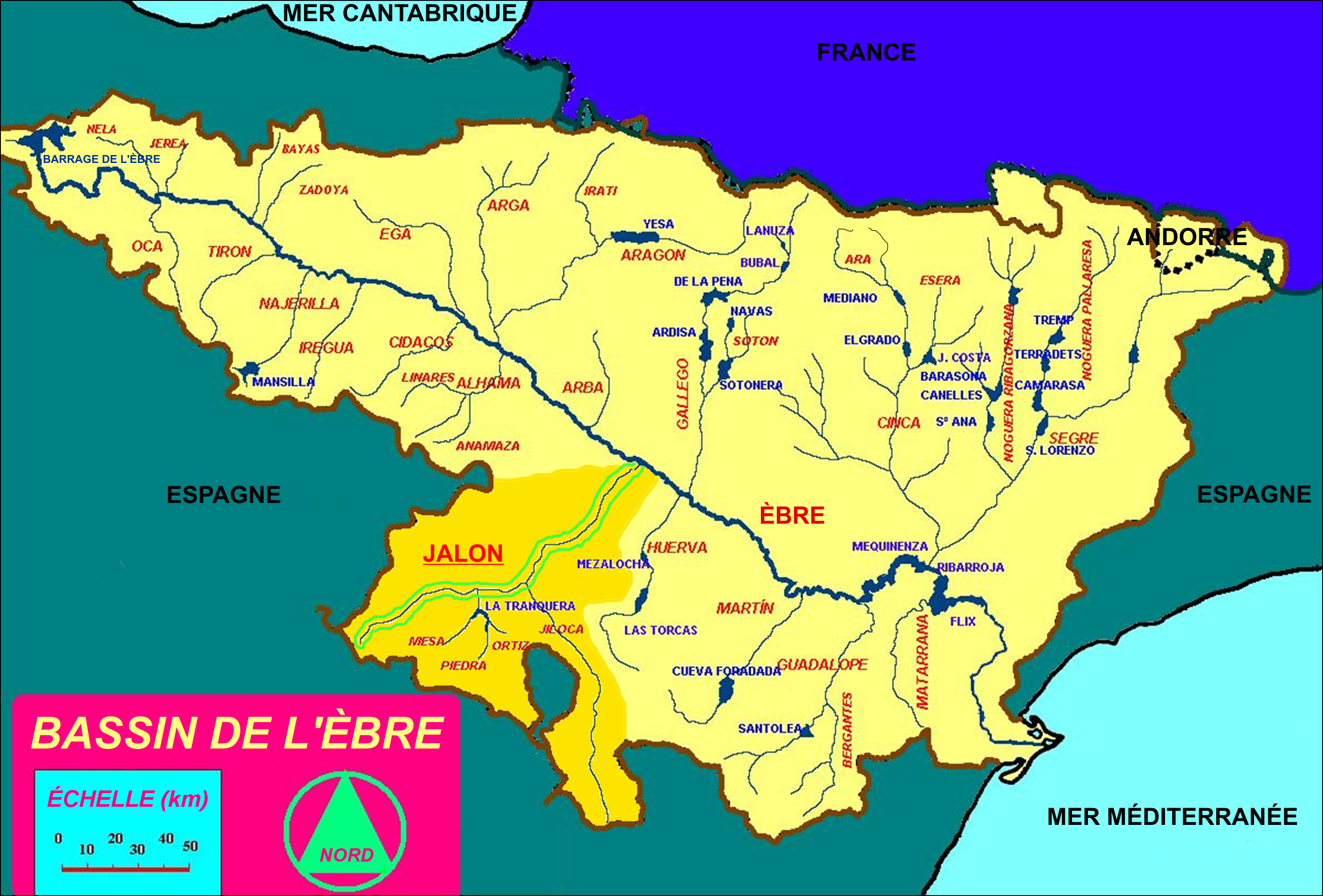 Watershed of the Jalon river (Spain)